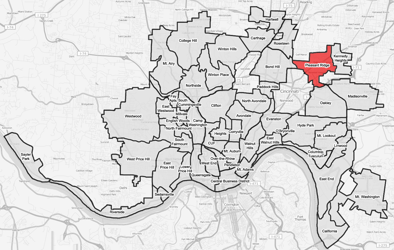 A map of the neighborhood of Pleasant Ridge within Cincinnati, Ohio. Neighborhood lines are based on information from This street map is derived from a free map.